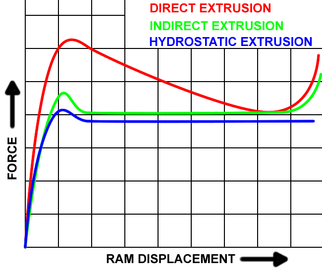 Plot of forces required by direction extrusion, indirect extrusion, and hydrostatic extrusion processes. Based on information from Drozda, Tom; Wick, Charles; Bakerjian, Ramon; Veilleux, Raymond F.; Petro, Louis ((Please provide a date)) Tool and manufacturing engineers handbook[1], volume 2, SME, ISBN 0872631354.